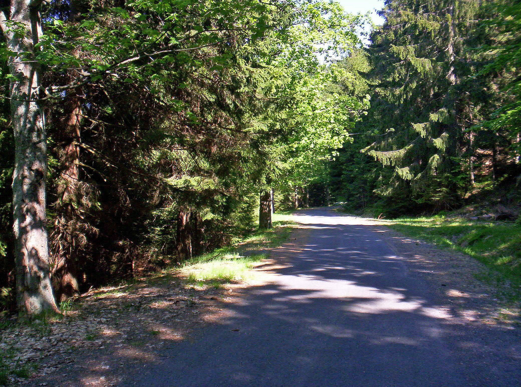 Moravian Way between Bialskie Mountains and Masyw Śnieżnika Mountains, Sudety Mountains, Poland